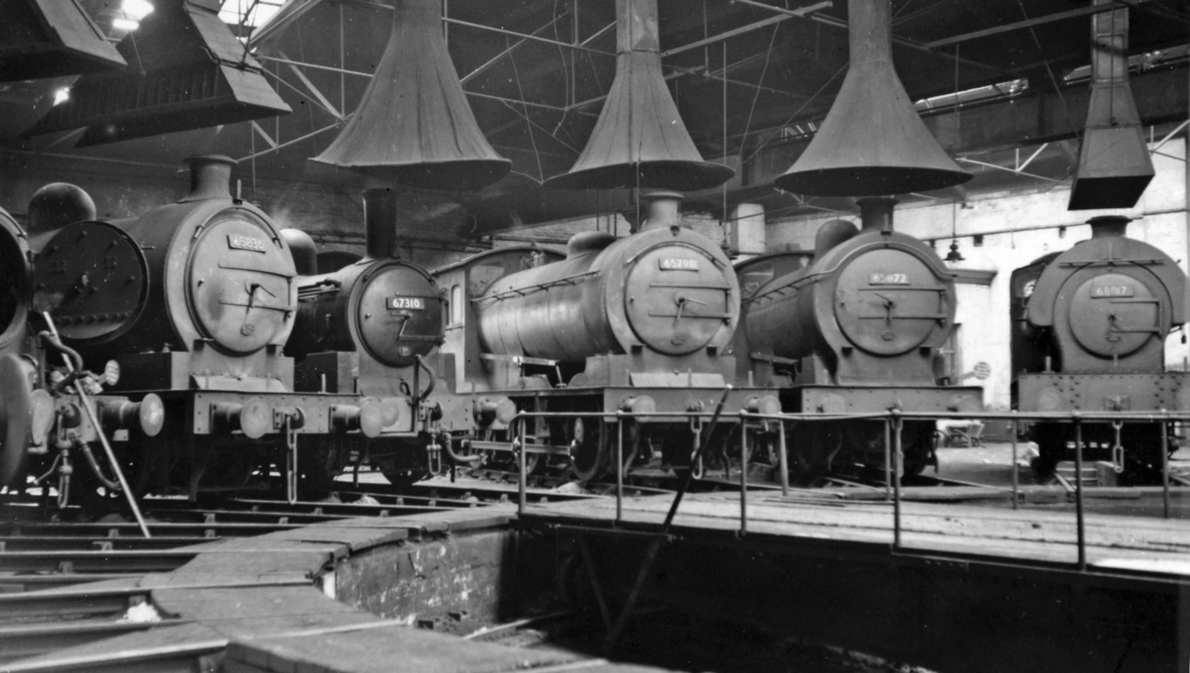 Inside a round-house at Sunderland South Dock Locomotive Depot, 1954A typical ex-NER roundhouse, with three J27 class 0-6-0s and a G5 class 0-4-4T all ex-NER, with on the right a WD 0-6-0T.